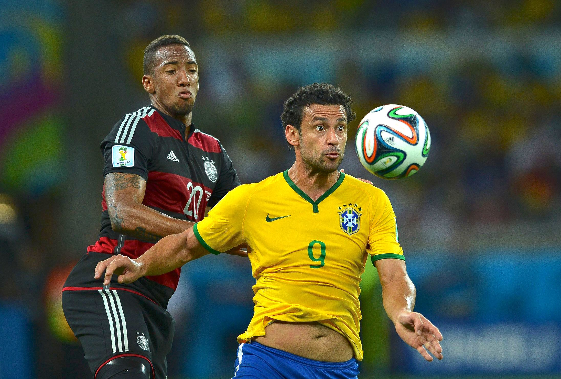 Brazil vs Germany, in Belo Horizonte